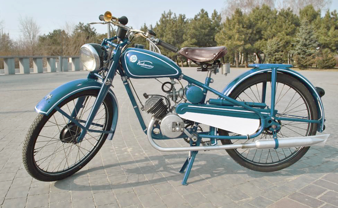 USSR motorized bicycle K1B, 1946